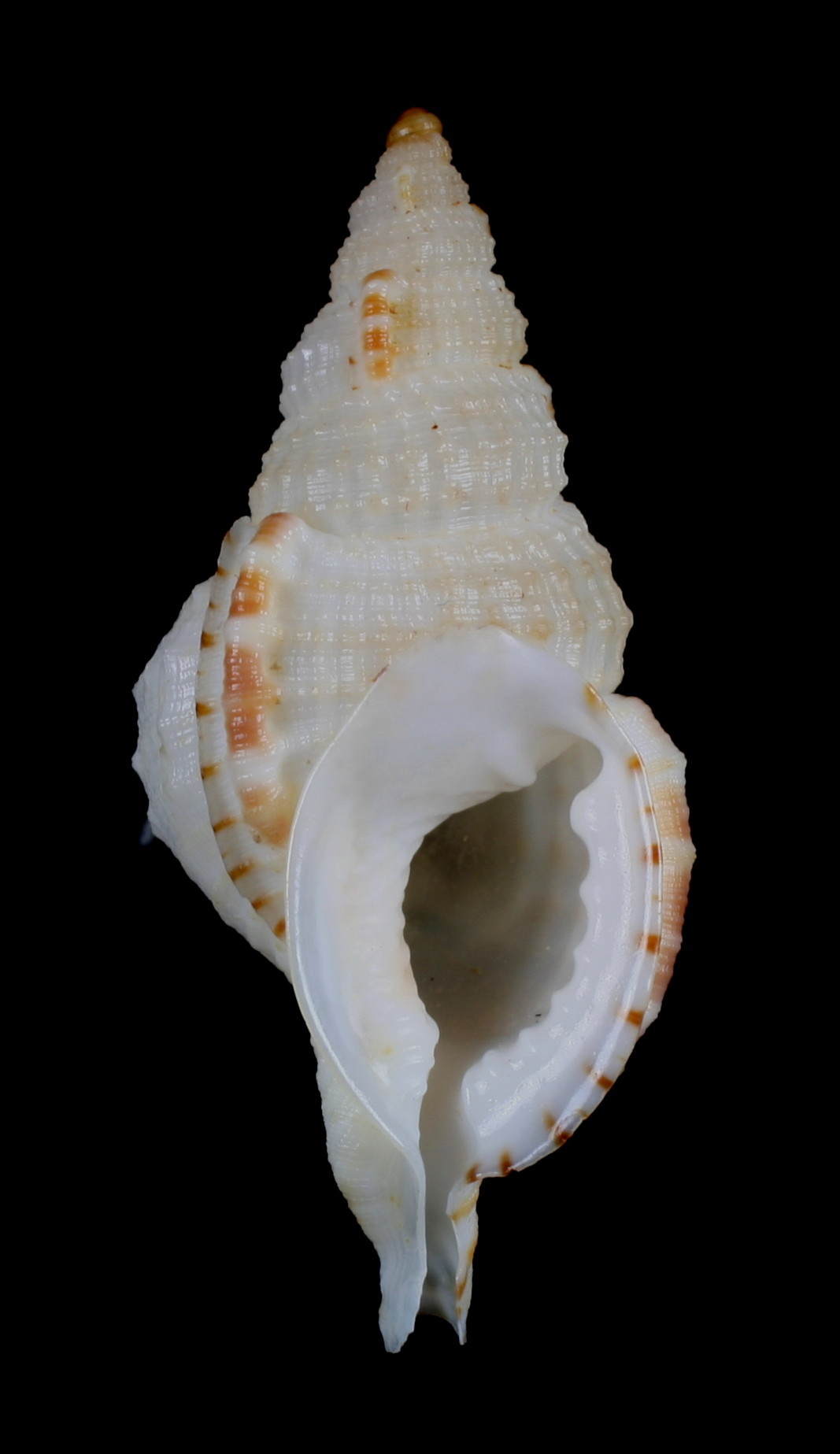 Ranellidae: Sassia semitorta (Kuroda & Habe, 1961)